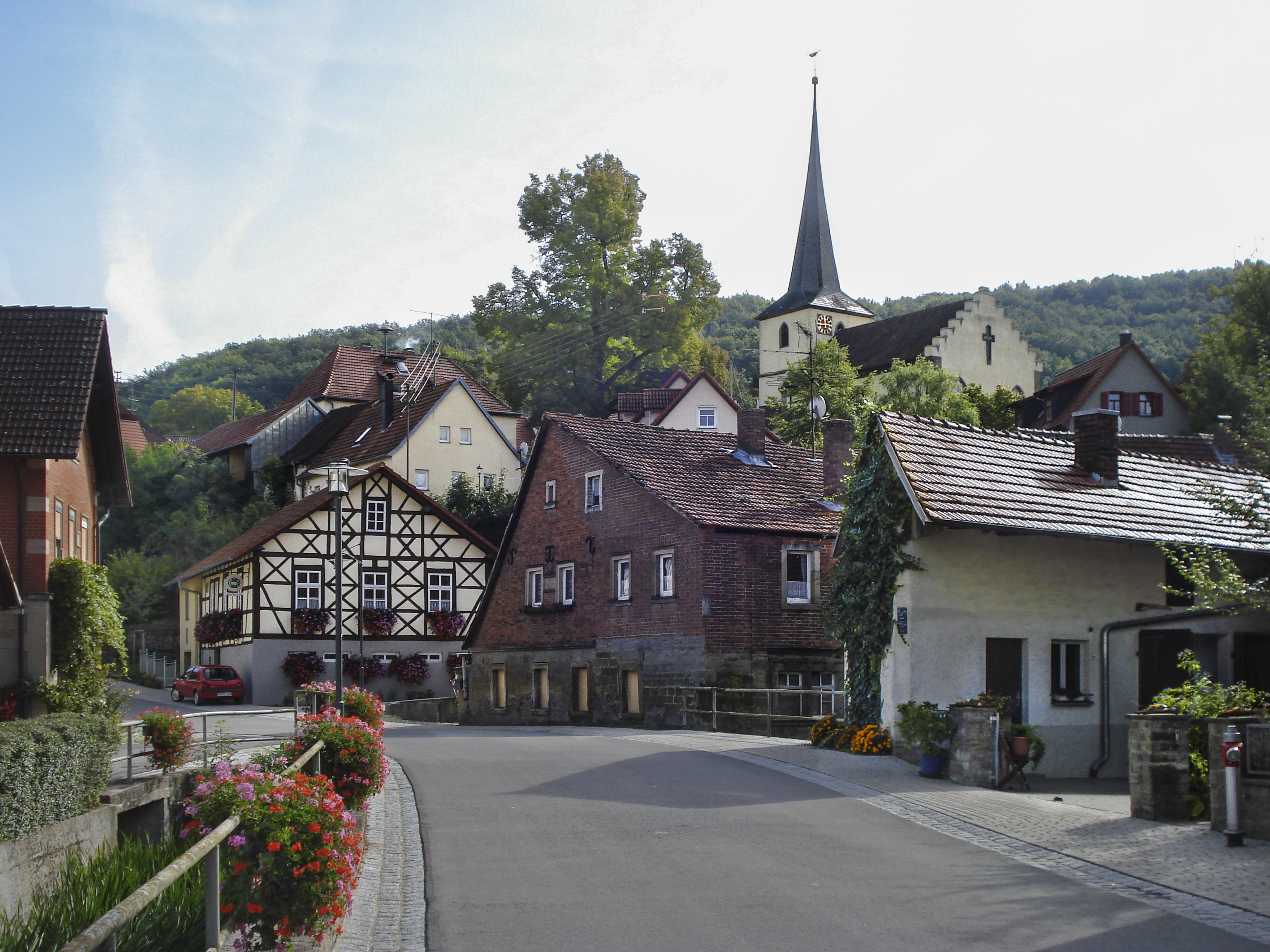 Königsberg i. Bayern, Altershausen